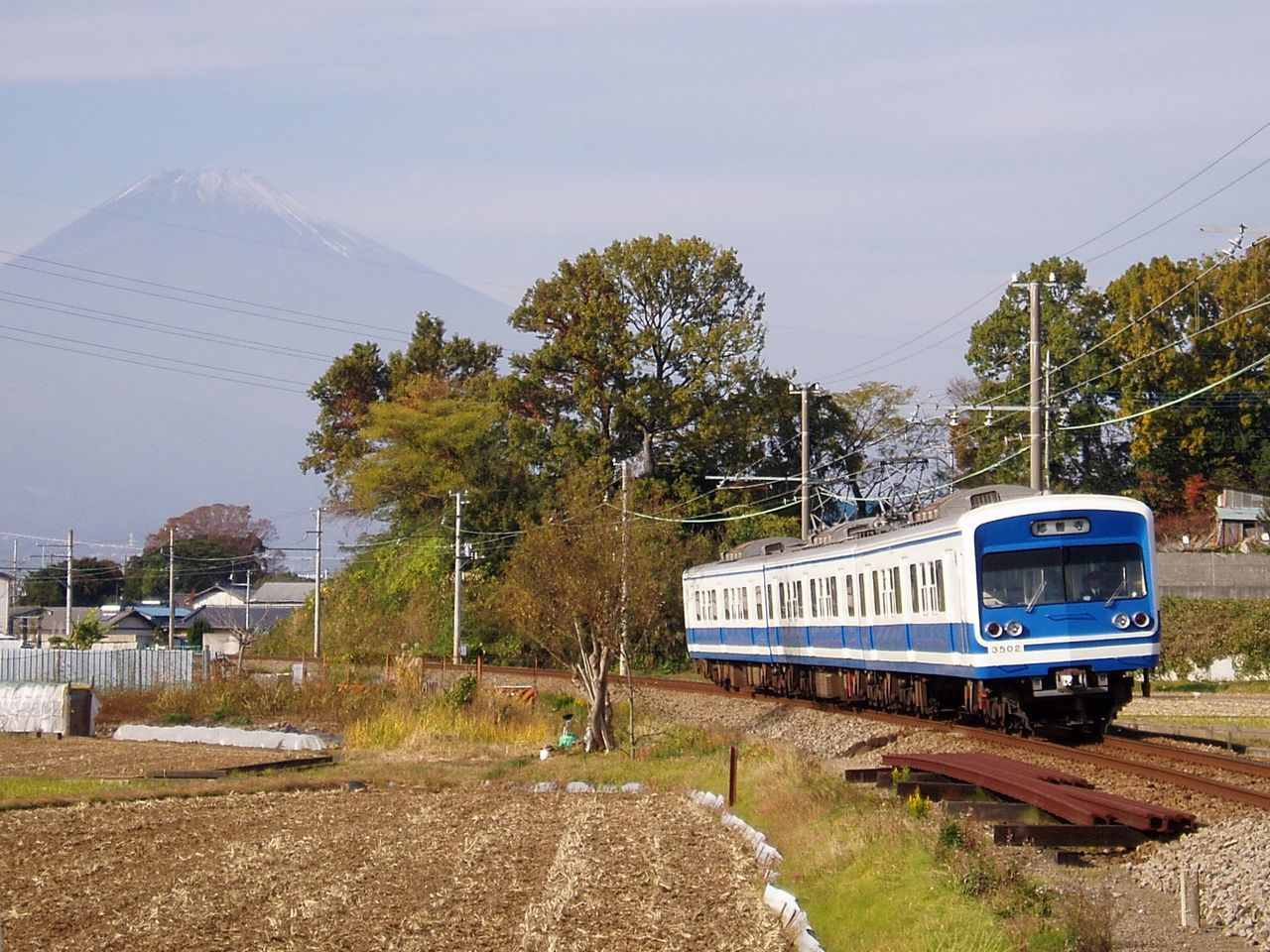 Isuhakone Railway at between Mishima-Futsukamachi Sta. and Daiba Sta. EMU Type 3000